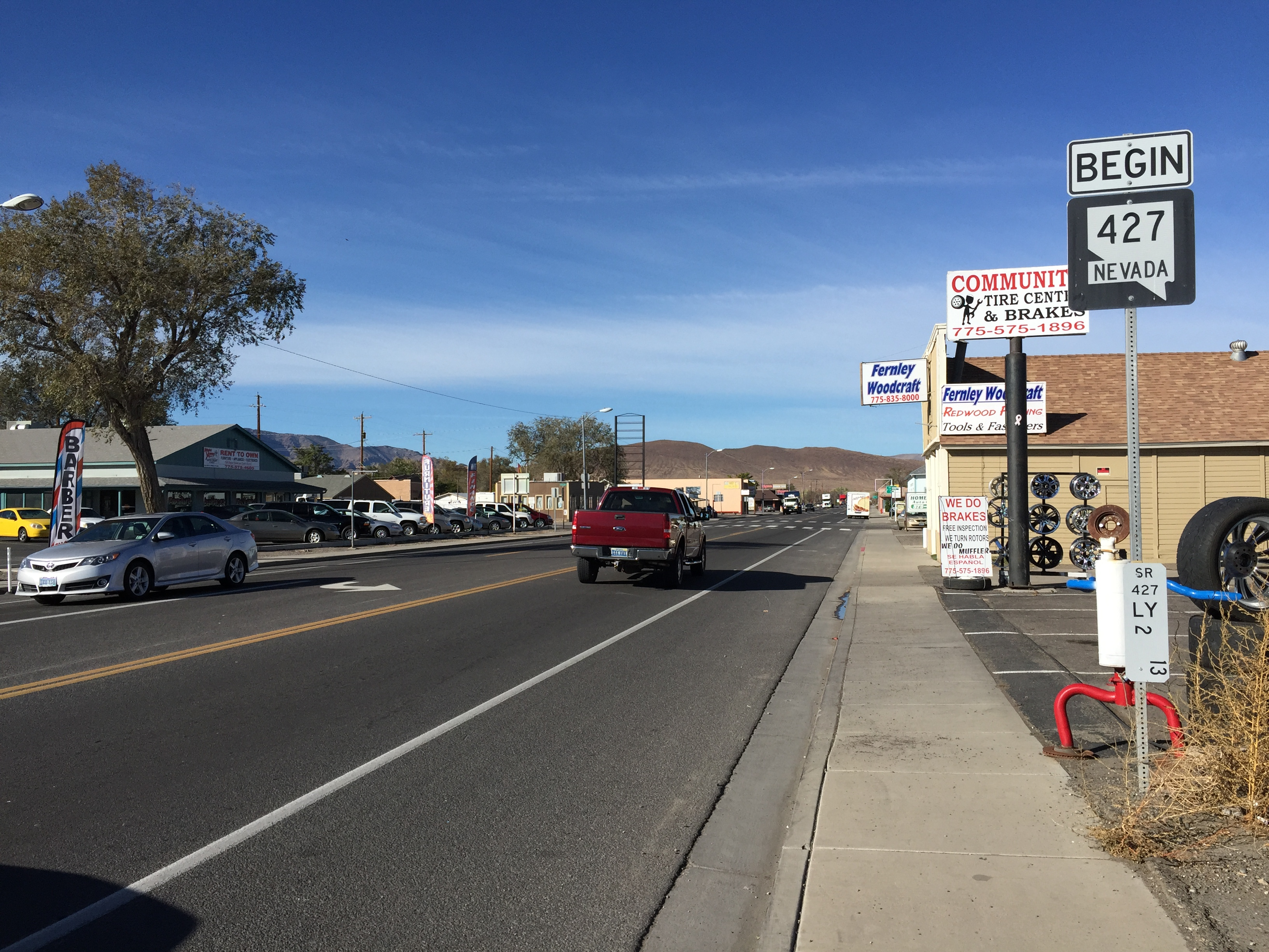 View west along Main Street (Nevada State Route 427) in Fernley, Nevada